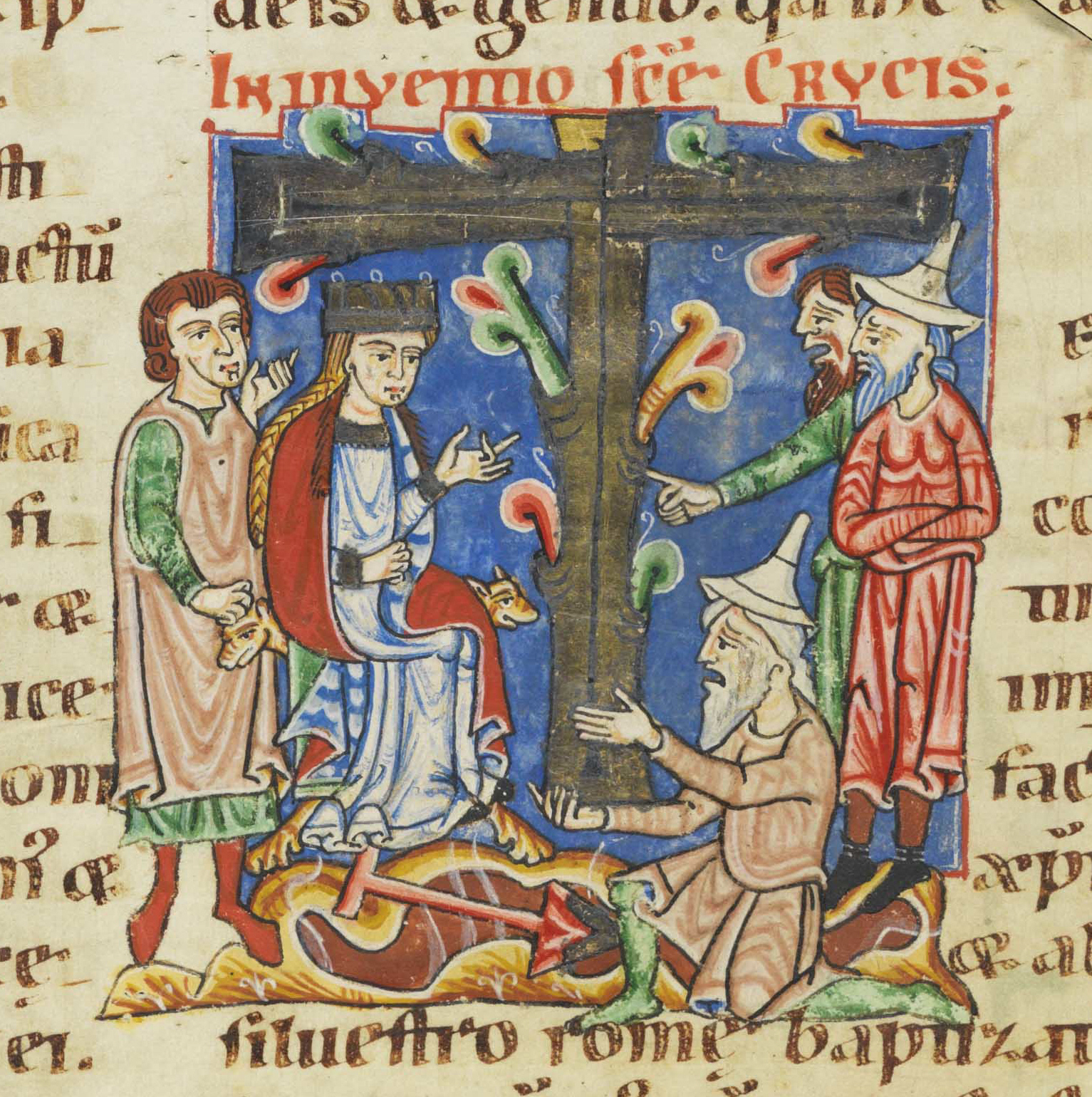 Inuentio sanctae Crucis, Illumination from the Passionary of Weissenau (Weißenauer Passionale); Fondation Bodmer, Coligny, Switzerland; Cod. Bodmer 127, fol. 53v